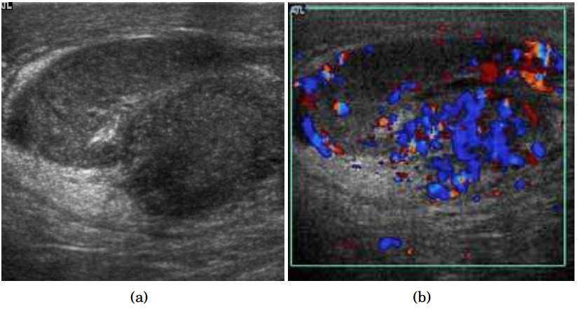 Scrotal ultrasonography of epididymo-orchitis